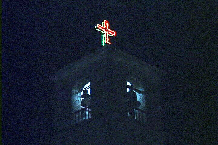 Jatibonico Catholic Church tower iluminated on Christmas 2007.